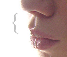 Philtrum highlighted by light